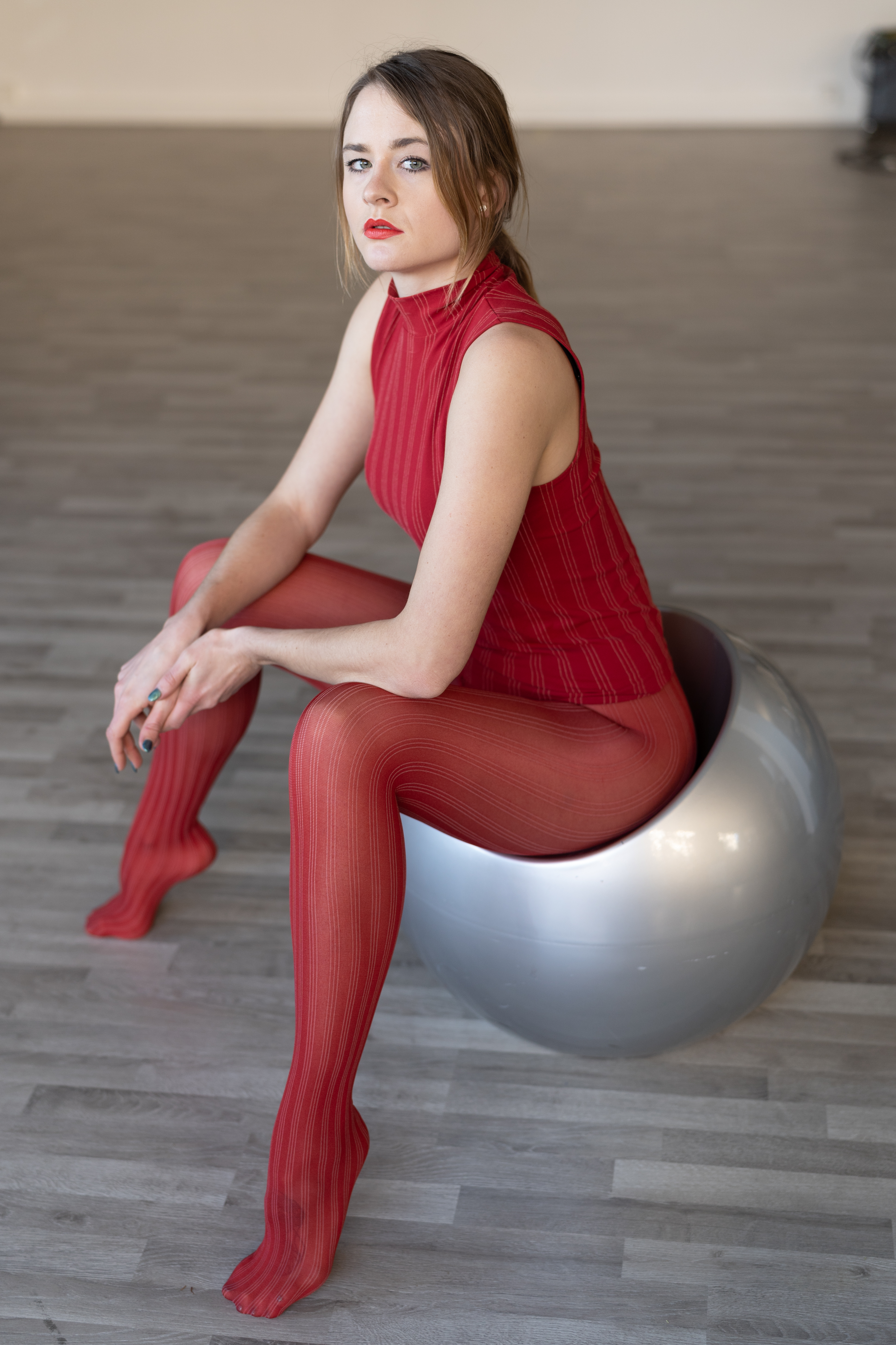 Wolford Cosmopolitan top and tights in relaxed pose. Image taken with available light. Basic composition of the tights is advertised as 77% nylon, 7% spandex, 16% Polyester. 50 den appearance. The gusset had no cotton lining but still a different touch compared to the legs. Thus the photographer suggest the option, as it was taken by the model, to wear them without anything underneath. Image unretouched. Modelled by Anastasia Voloshina.